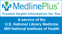 MedlinePlus logo